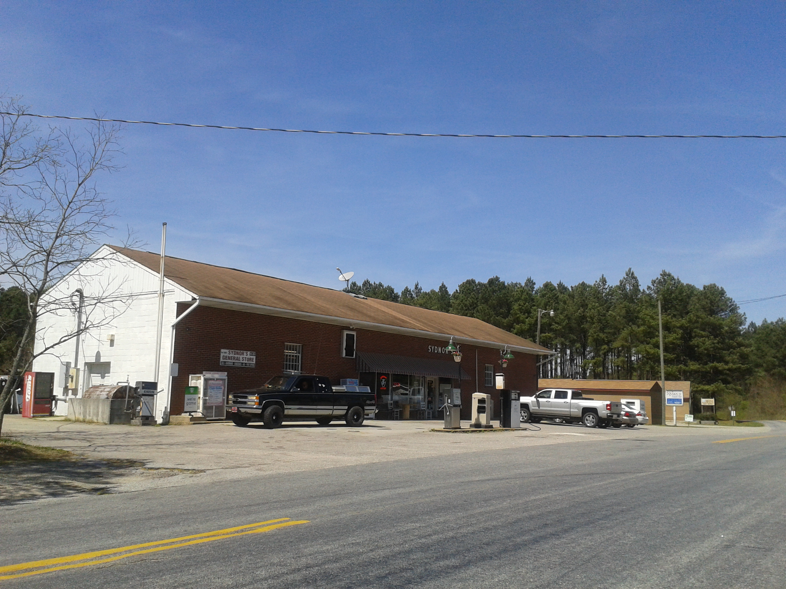 Store in Mannsville, Virginia